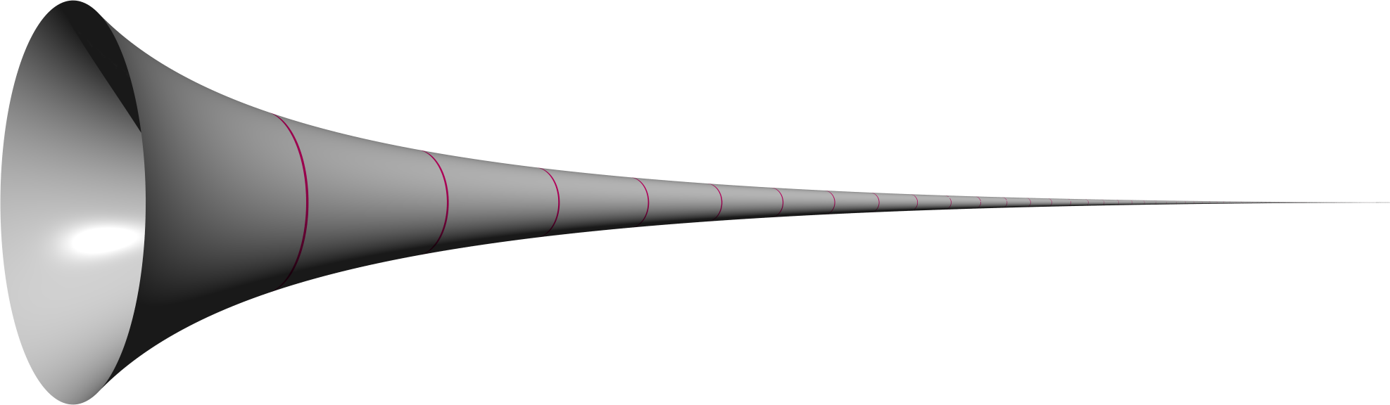 Povray rendering of Gabriel's Horn. Its source code is at and GabrielsHorn.inc which is generated by make_horn.cc